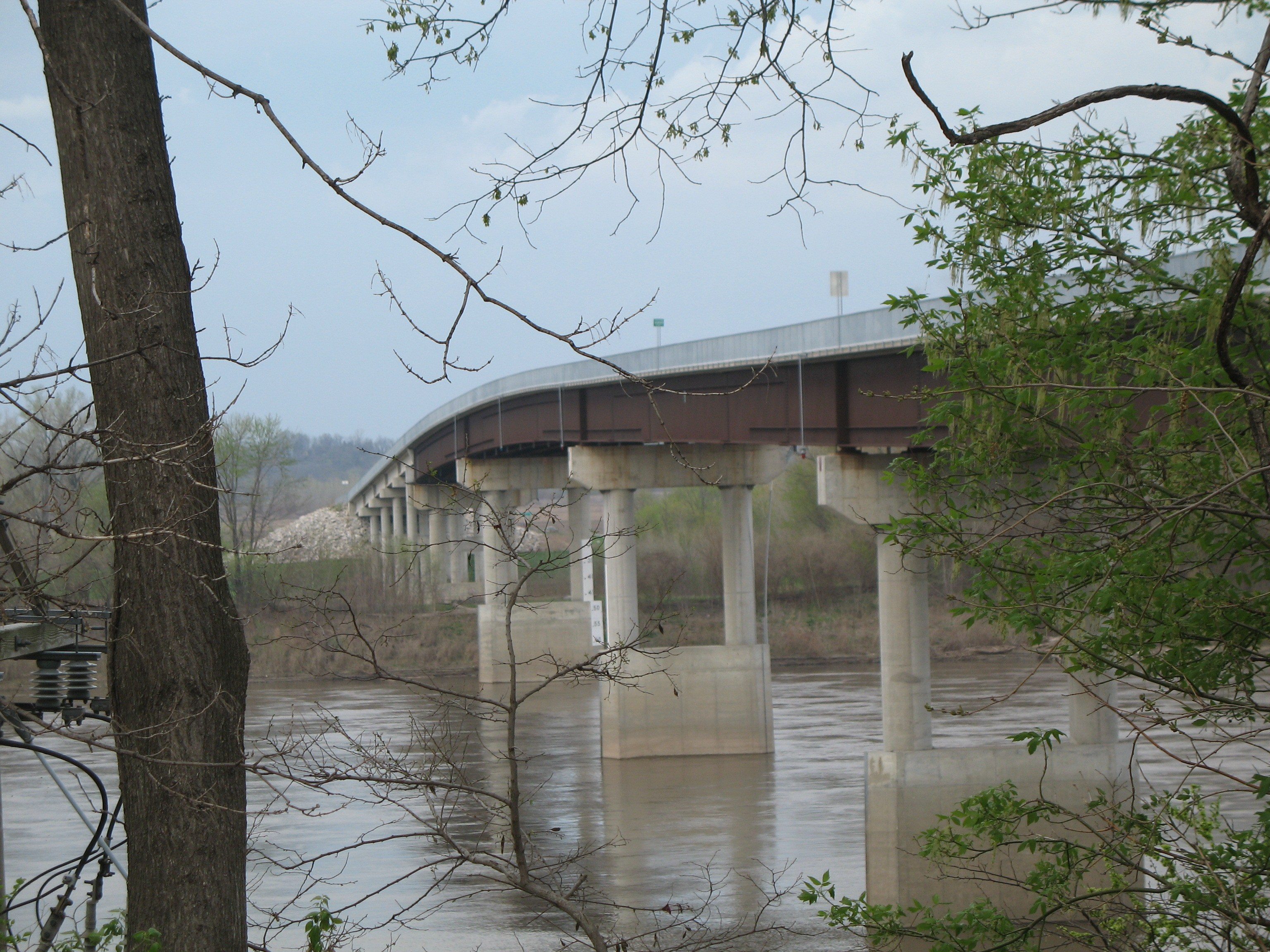 Boonville Bridge from southeast. Photo by poster in March 2007.